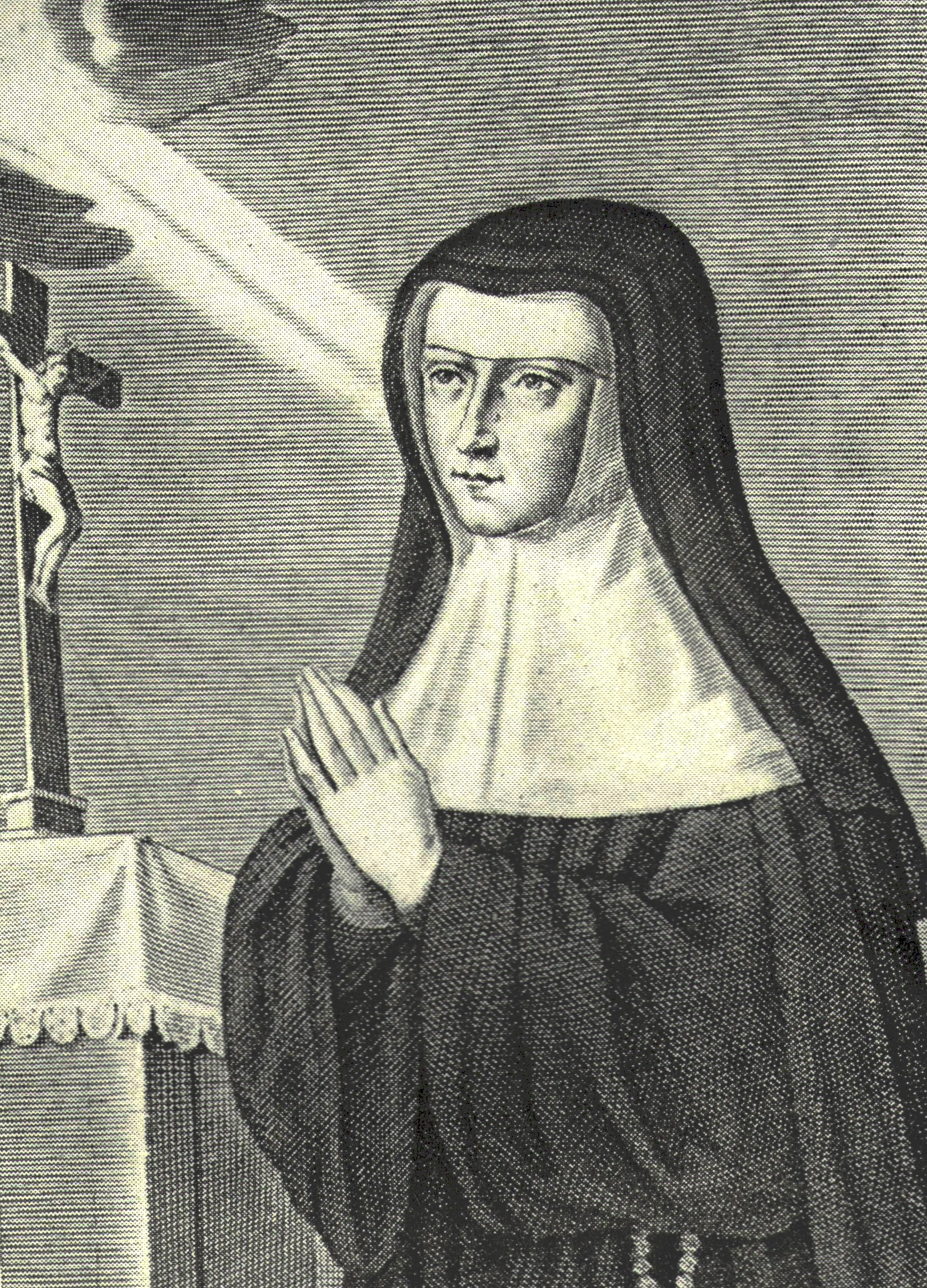 Alix Le Clerc Lorraine Nancy Famille Le Clerc